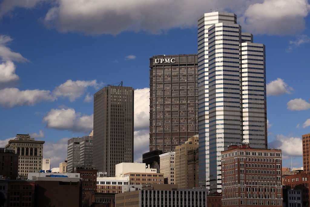 photograph taken from Station Square of Downtown Pittsburgh, PA